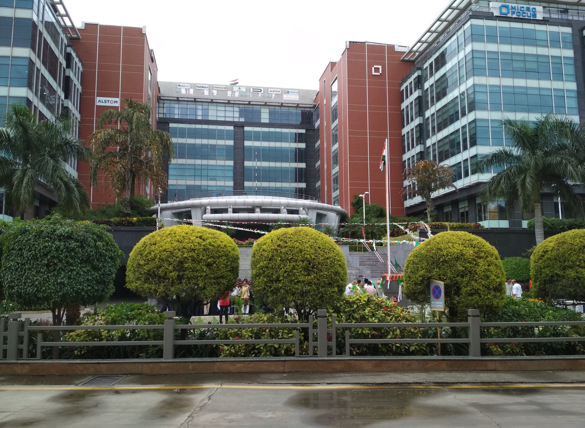 Alstom Transport India at Bagmane Laurel, CV Raman Nagar, Bangalore